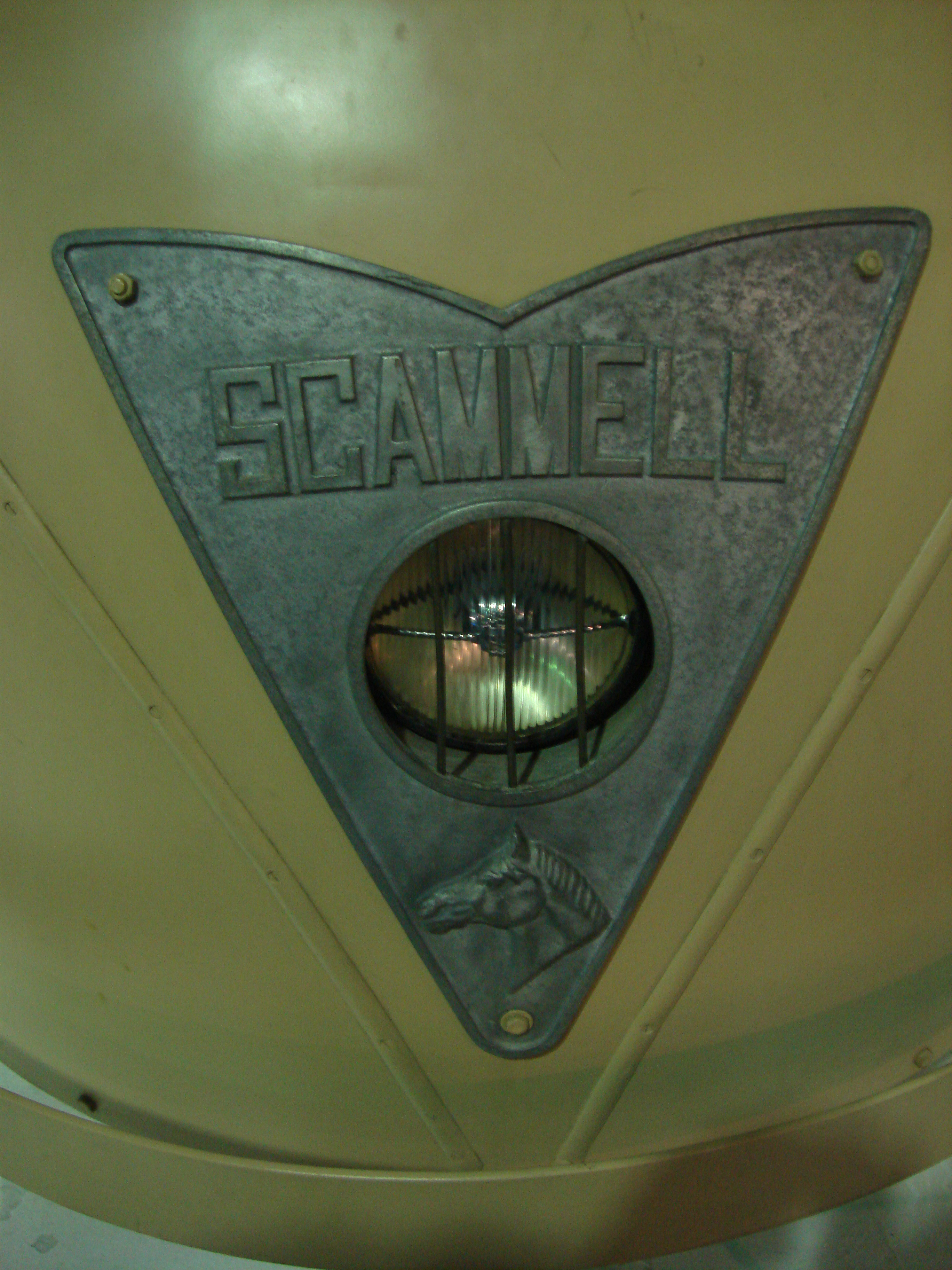 Scammell Scarab Mk6 at the RAF Museum, london